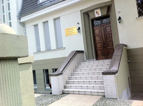 Embassy of Cameroon in Berlin